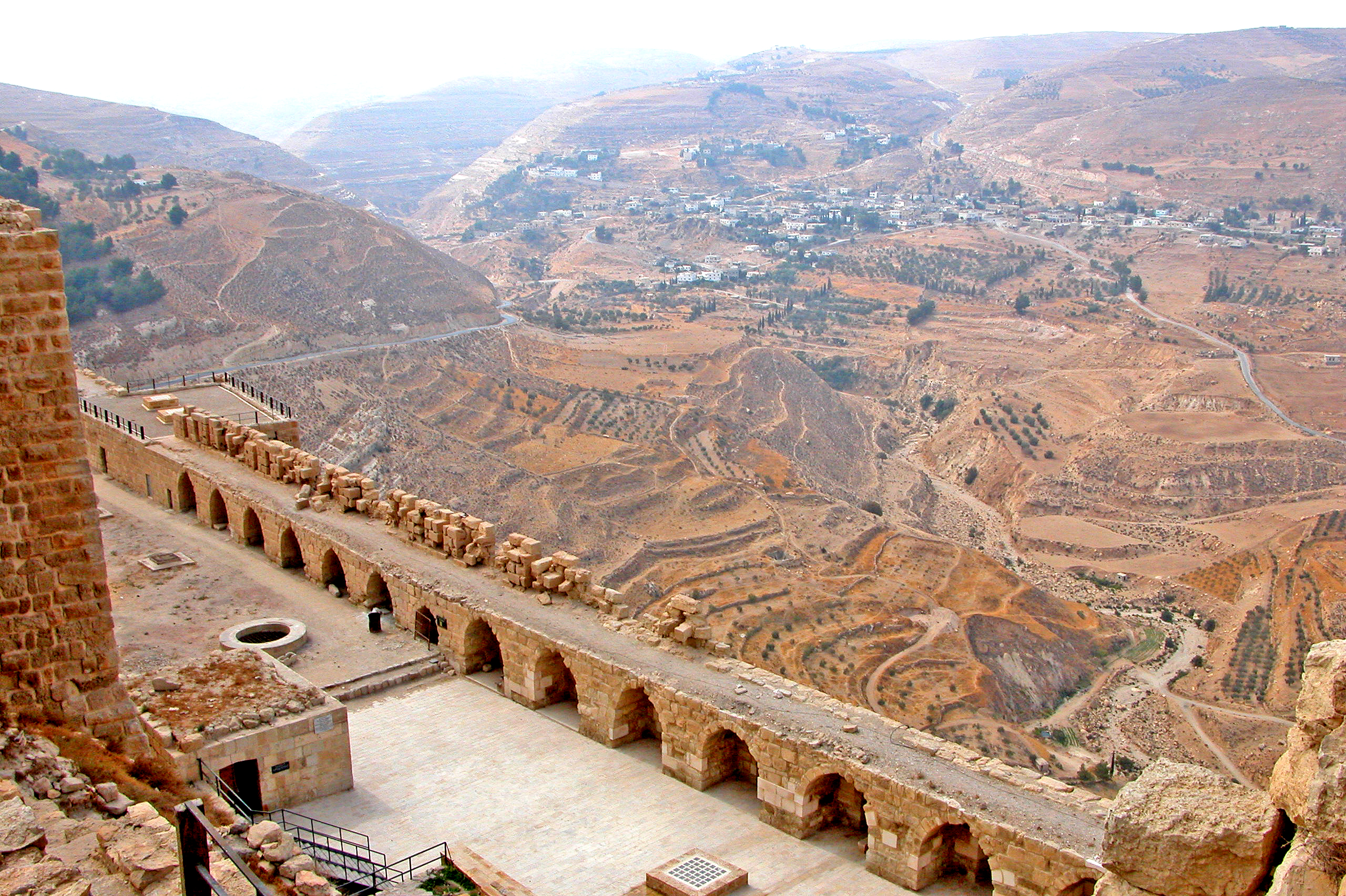 Lower terrace of the Castle, what a great view. Karak, Jordan